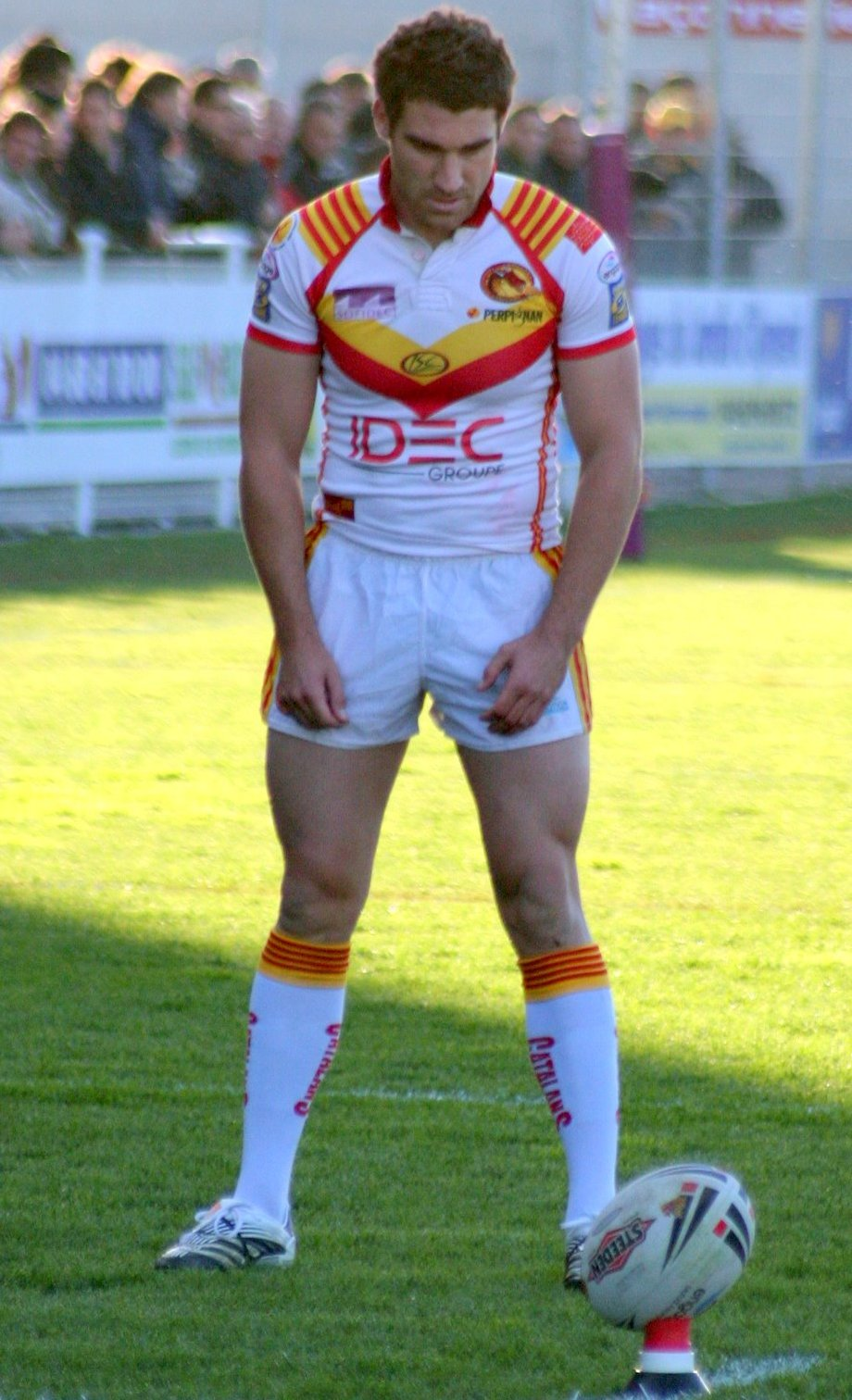 Thomas Bosc, French rugby league player.